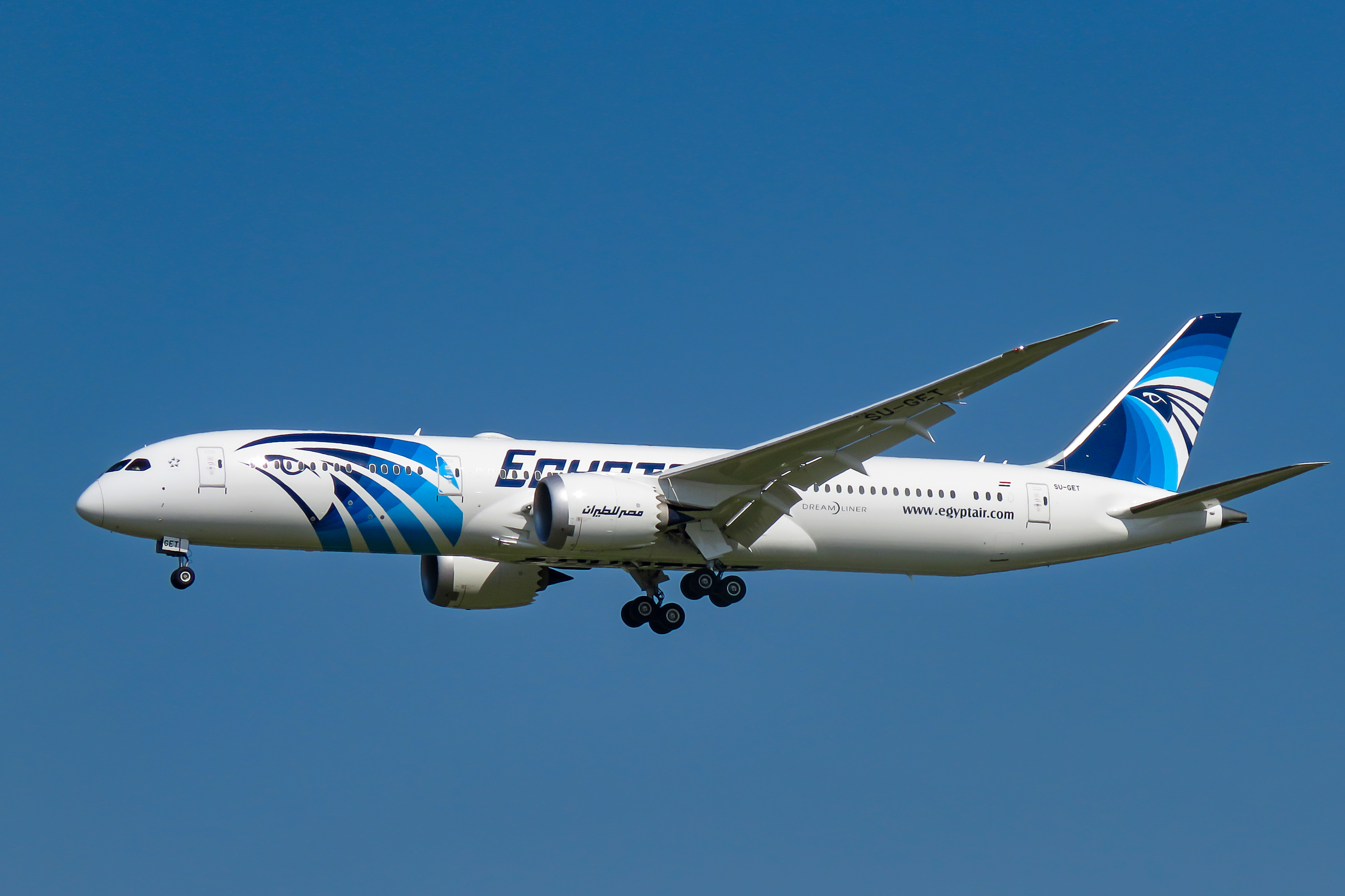 EgyptAir 955 from Cairo. This is the second visit of their 787 to Beijing.